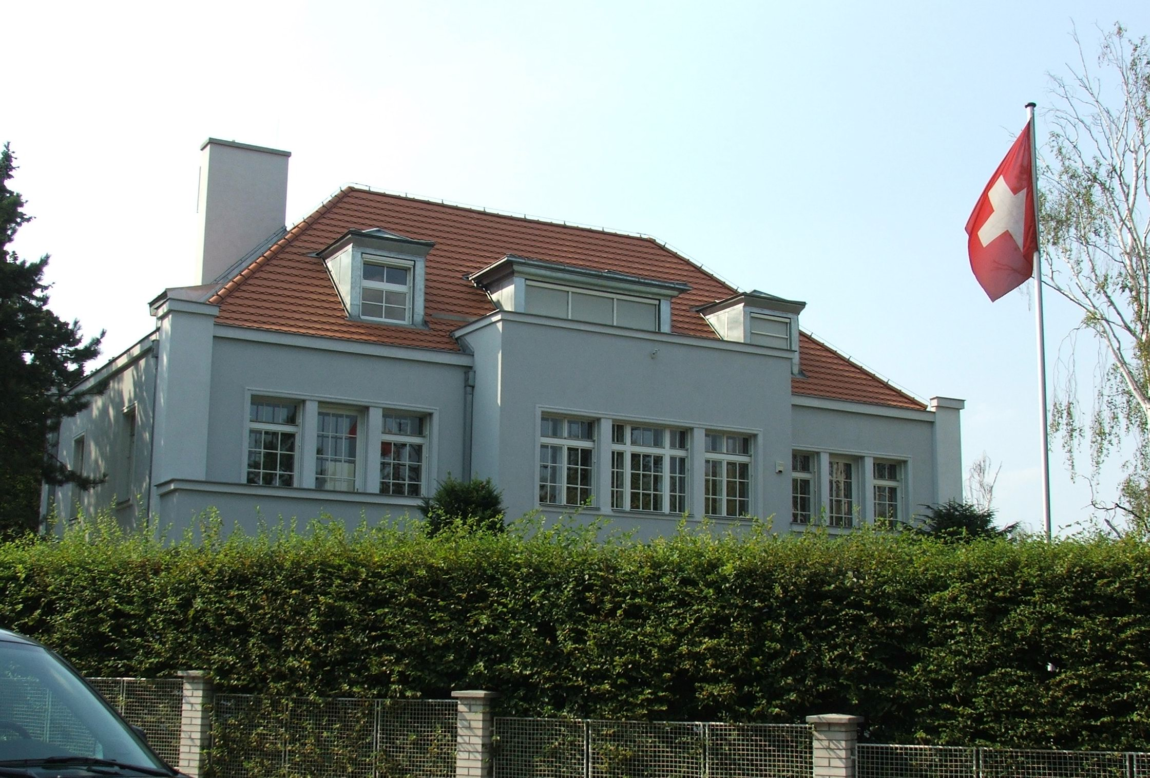 Embassy of Switzerland in Prague - Střešovice, Czechia